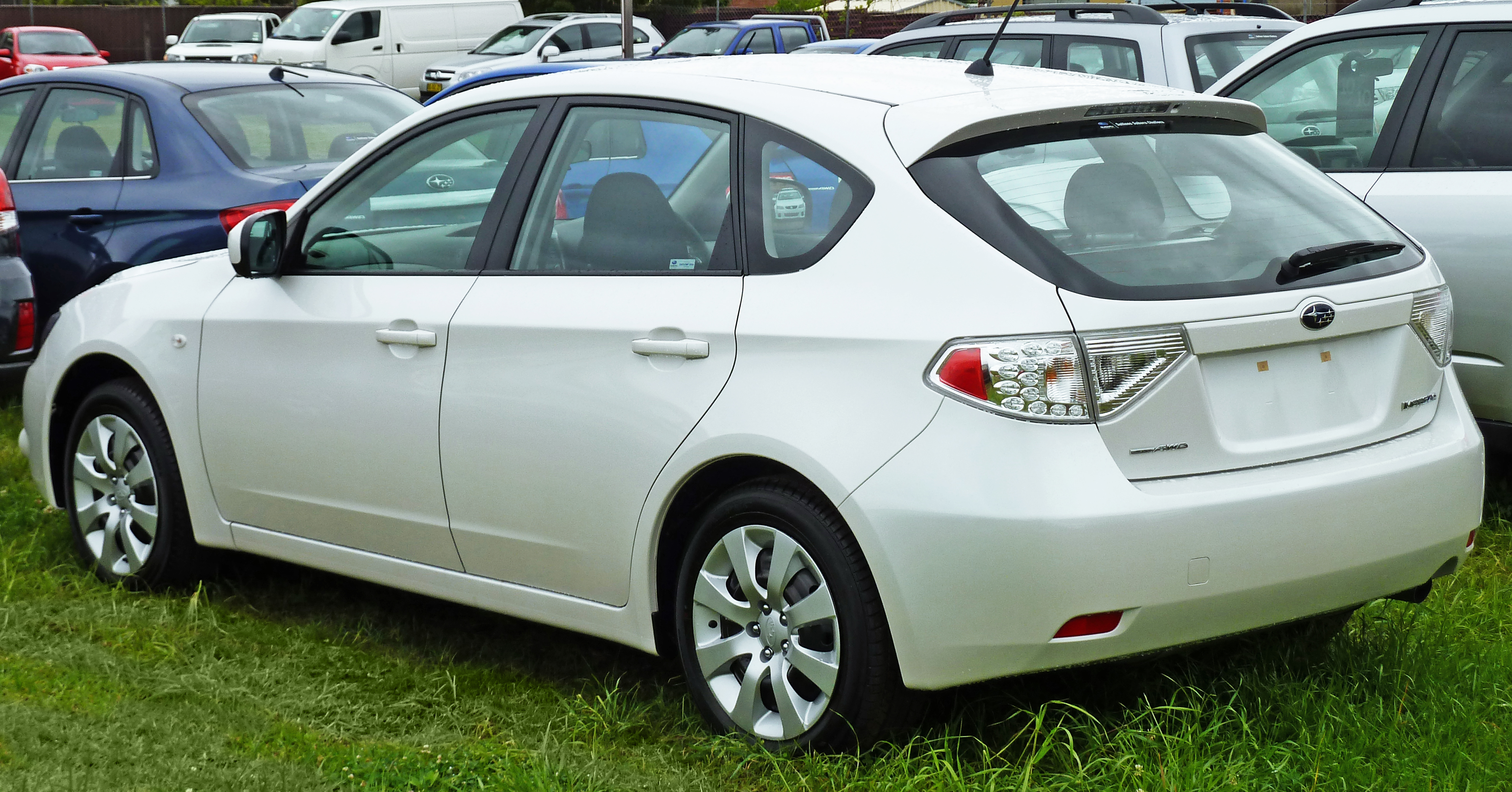 2010 Subaru Impreza (GH7 MY11) R hatchback. Photographed at Suttons Subaru, Chullora, New South Wales, Australia.